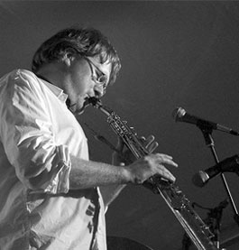 benjamin Koppel